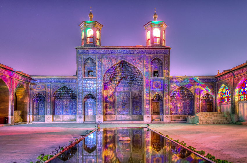 Yard of the Nasir ol Molk Mosque, Shiraz, Iran